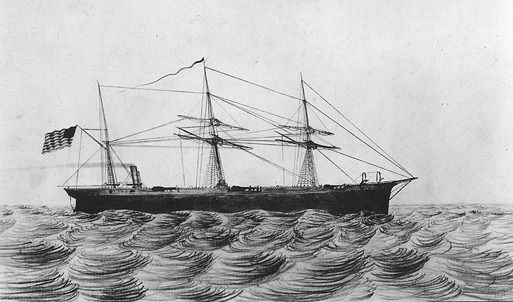 USS Lodona (1863-1865) Sketch by Commander Edmund R. Colhoun, from his letter book of 1865-1885 in the Naval Historical Foundation's Colhoun Collection. He was Lodona's Commanding Officer during the Civil War.